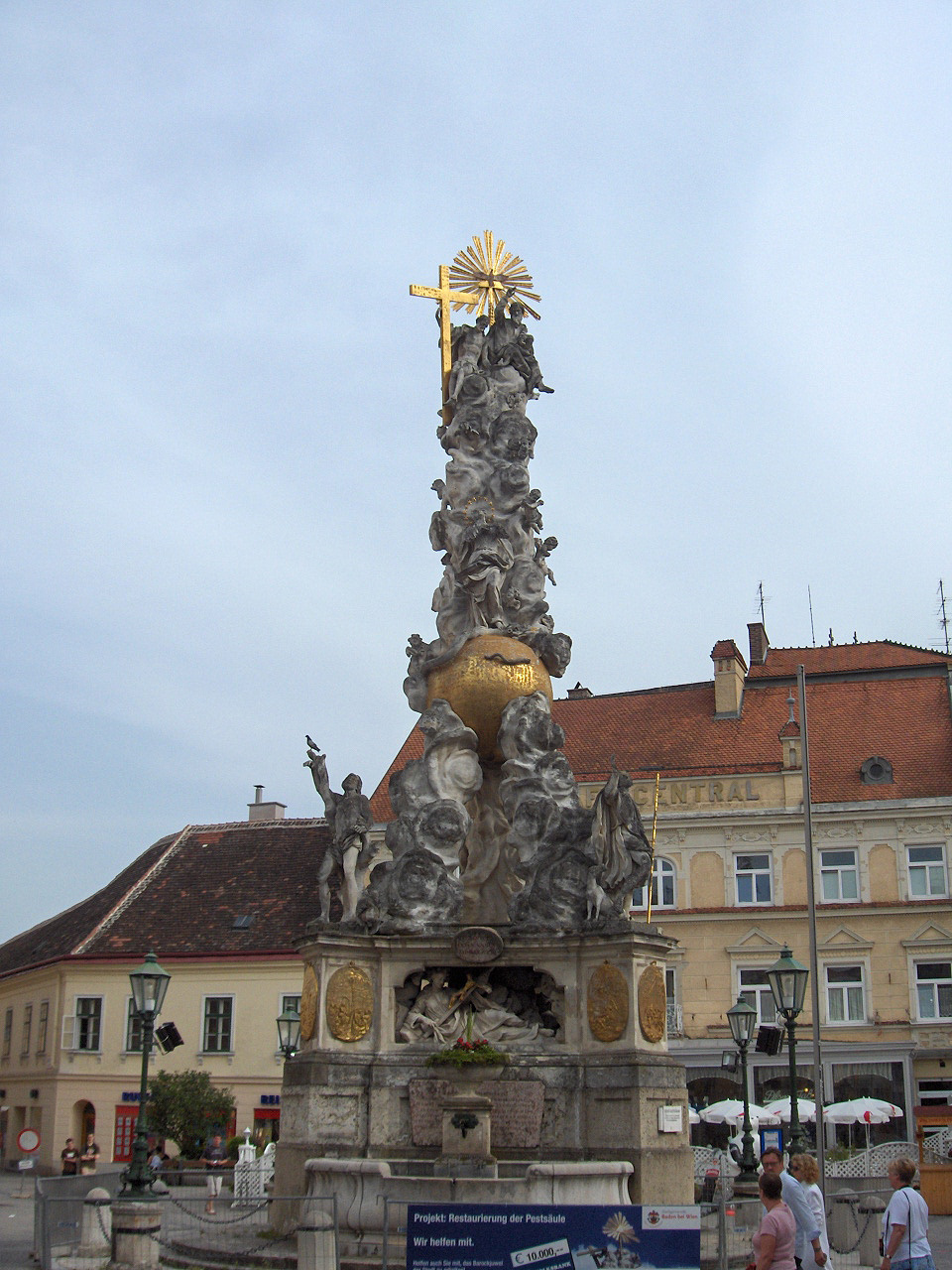 Trinity column (plague column) by Giovanni Stanetti; Baden bei Wien, Austria